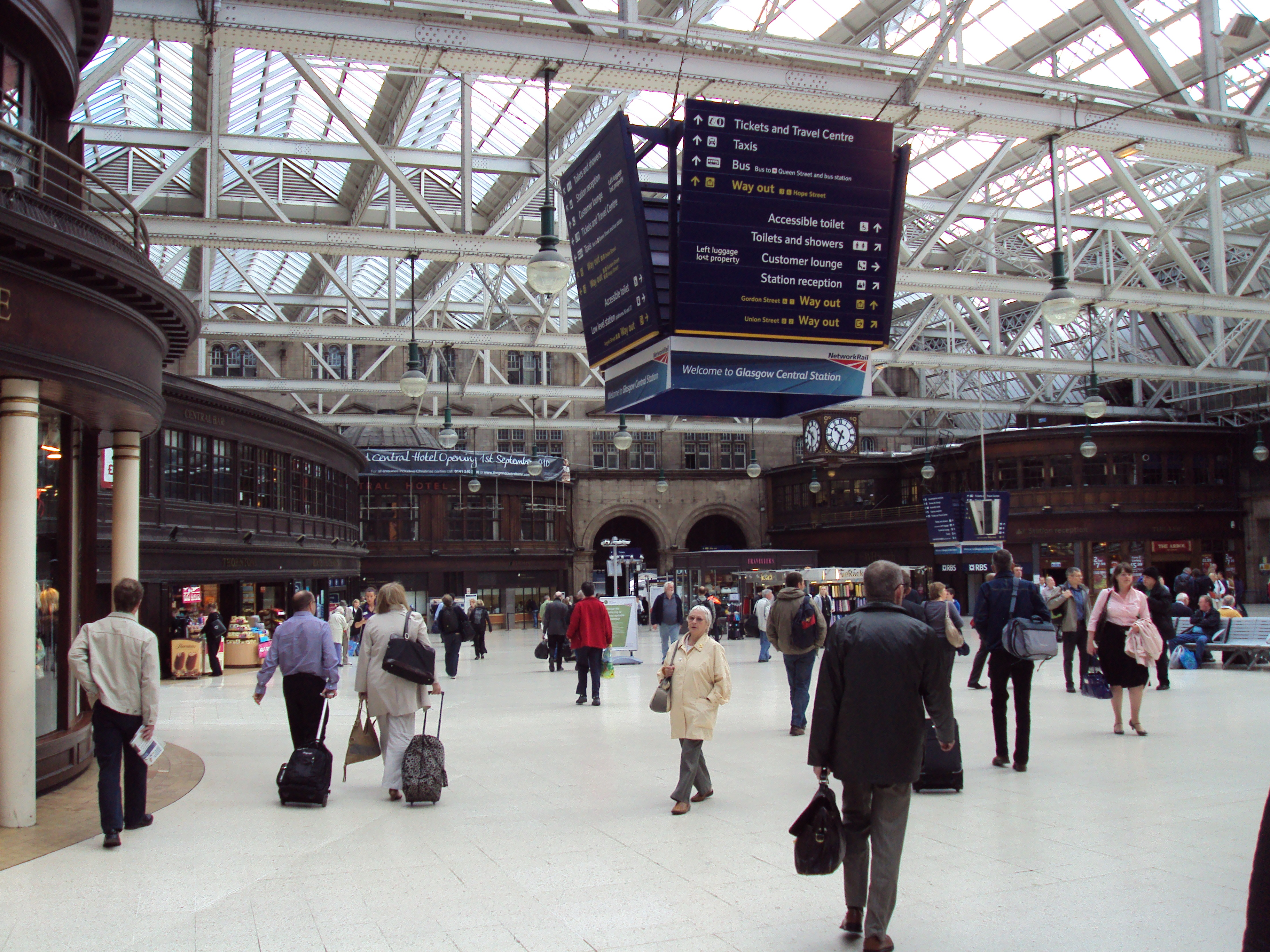 Concourse of Glasgow Central railway station, Scotland.